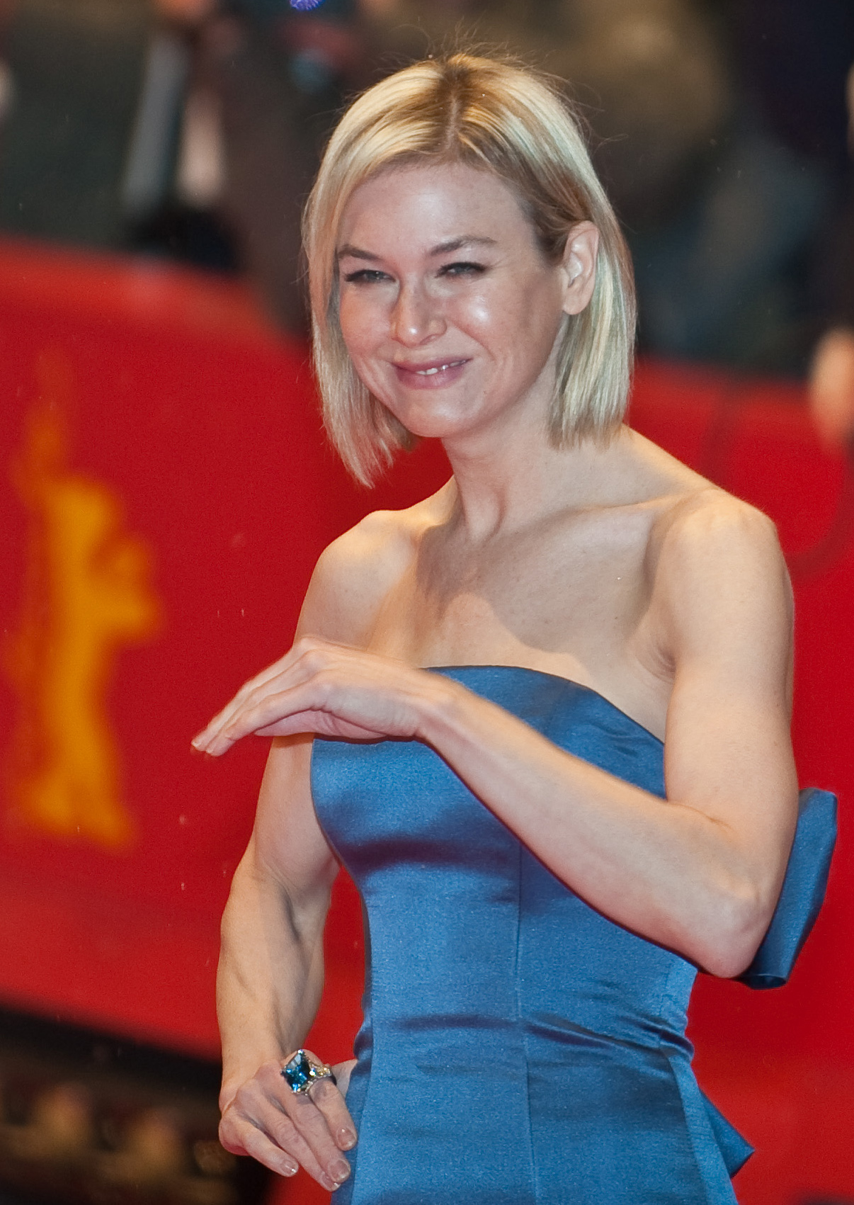 Actress Renée Zellweger, member of the international jury, arriving at the opening of the 60th Berlin International Film Festival